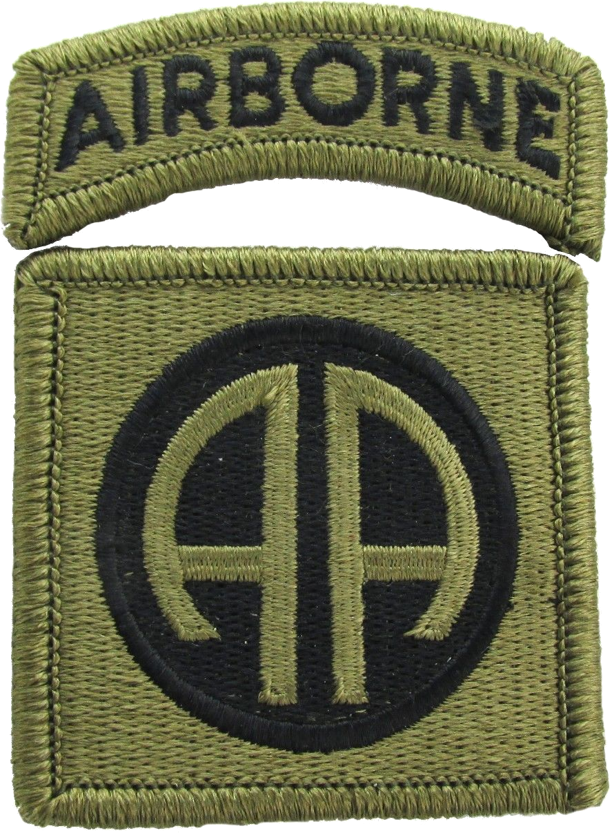 Patch of the 82nd Airborne Division (Scorpion W2)